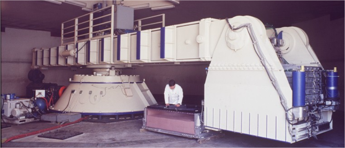 A 9 m radius geotechnical centrifuge. A technician stands near model container that mounts on the centrifuge swinging platform. This equipment is used to test scale models of geotechnical engineering problems.